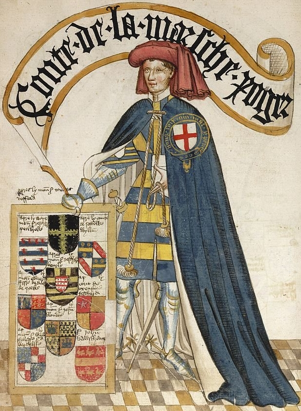 Conte de la Marsche Roger, Roger Mortimer, 2nd Earl of March KG from the Bruges Garter Book, 1430/1440, BL Stowe 594